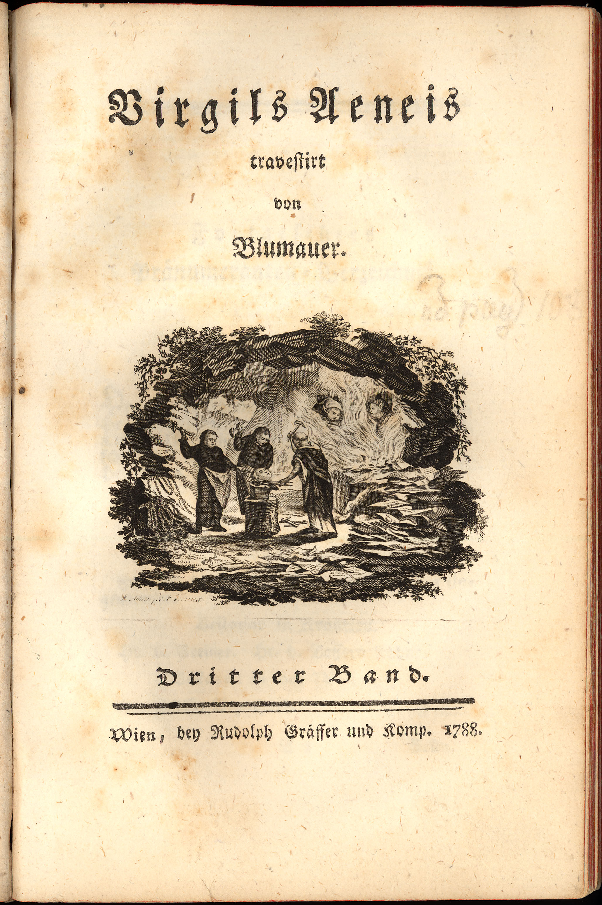 Title page of volume III of Aloys Blumauer’s Virgils Aeneis travestiert (“Travesty of Virgil’s Aeneis”), printed Vienna 1788. First edition.